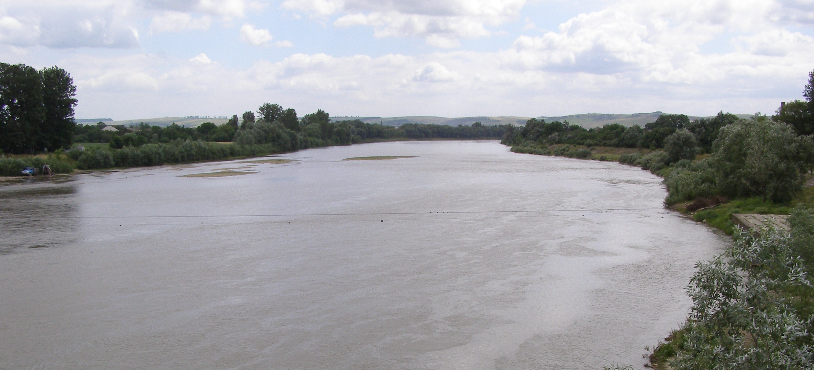 Dniester river in Halych, Ivano-Frankivsk Oblast, western Ukraine.